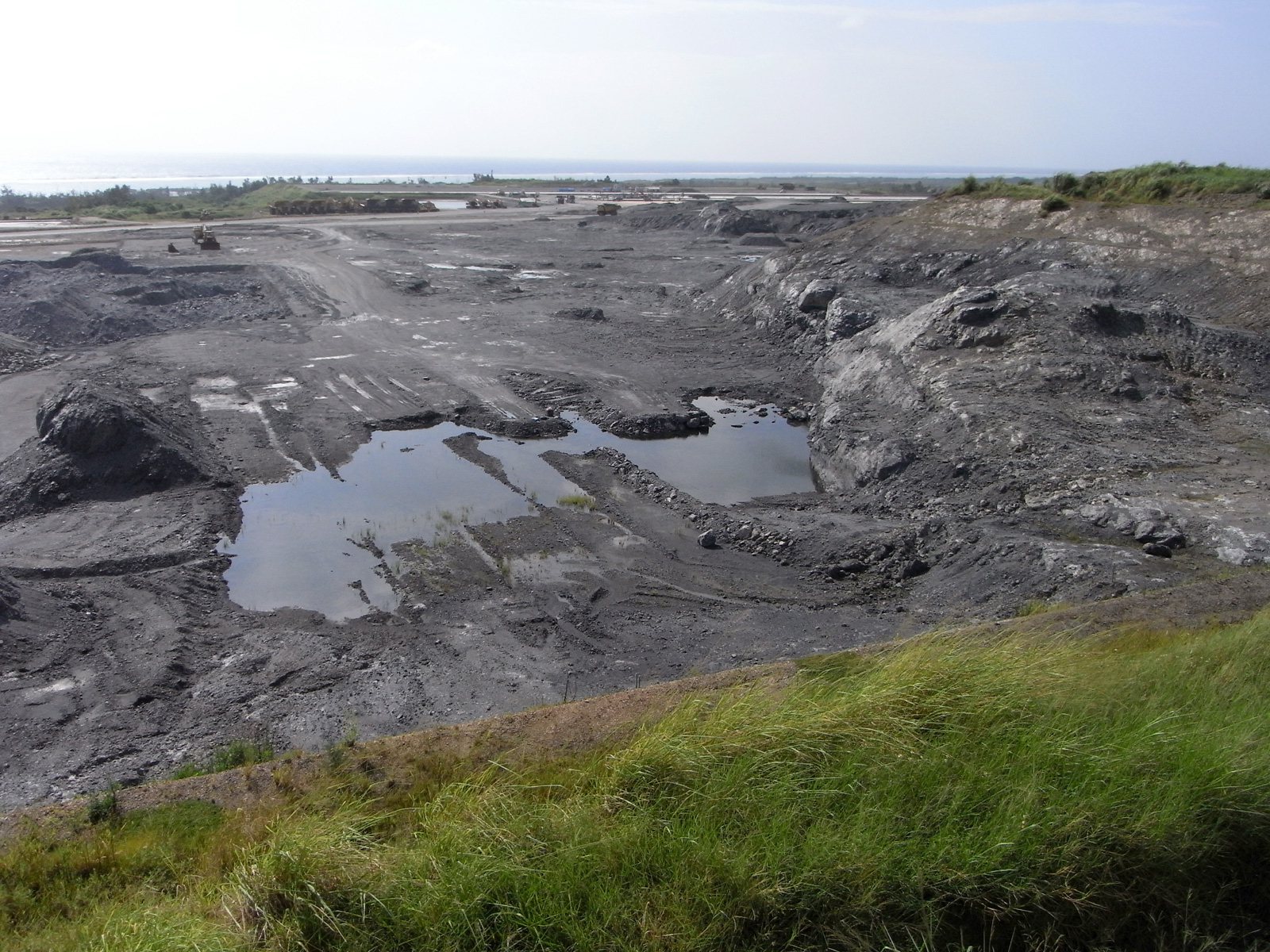 New Ishigaki Airport, Ishigaki, Okinawa, Japan